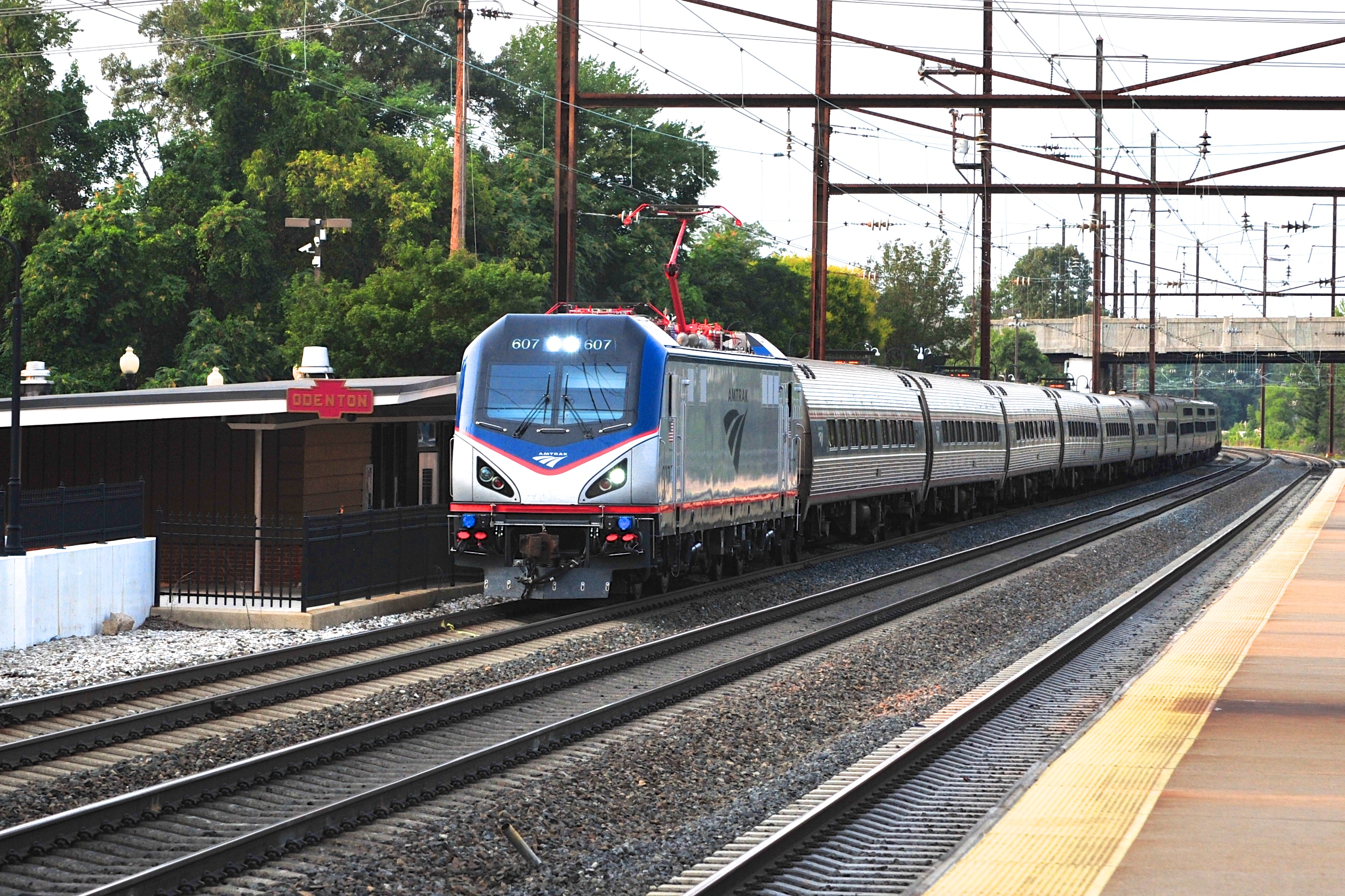 Amtrak's train 97 blows through Odenton, led by shiny new ACS-64 #607.